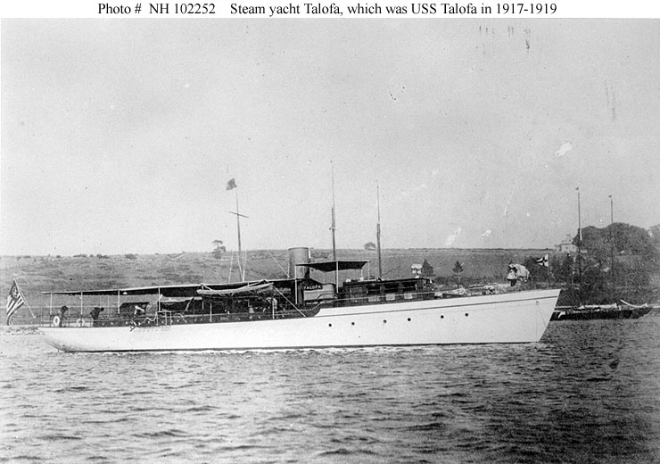 The private yacht Talofa sometime prior to her United States Navy service as the patrol vessel